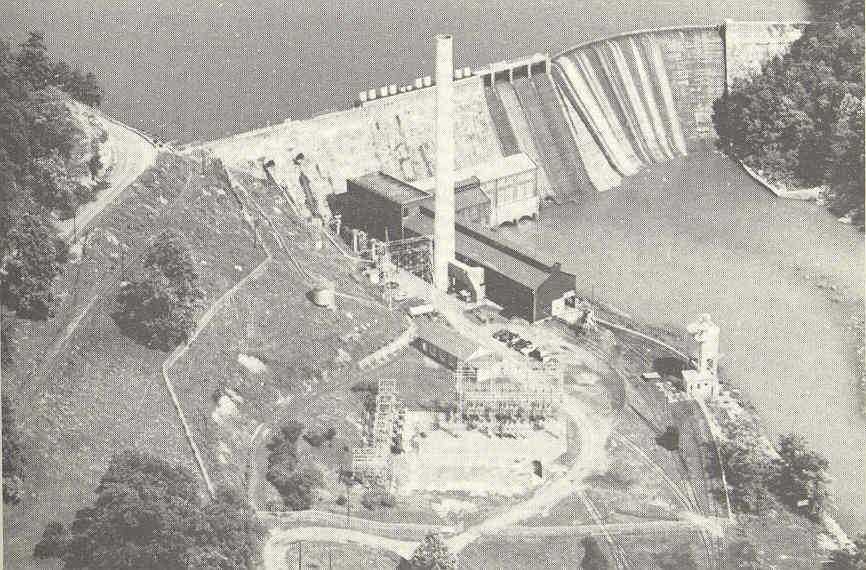 Ocoee Dam No. 1 on the Ocoee River in Polk County, Tennessee, USA, photographed in the 1940s.